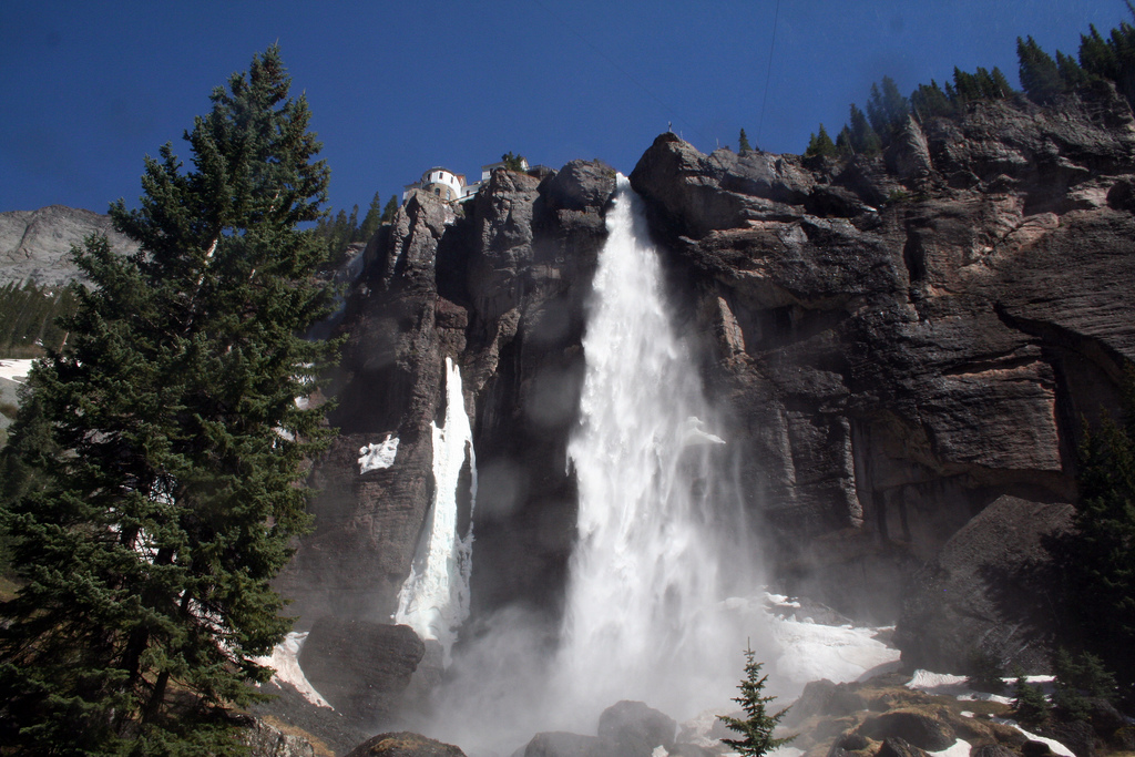 Right below Bridal Veil Falls, Telluride, Colorado, United States